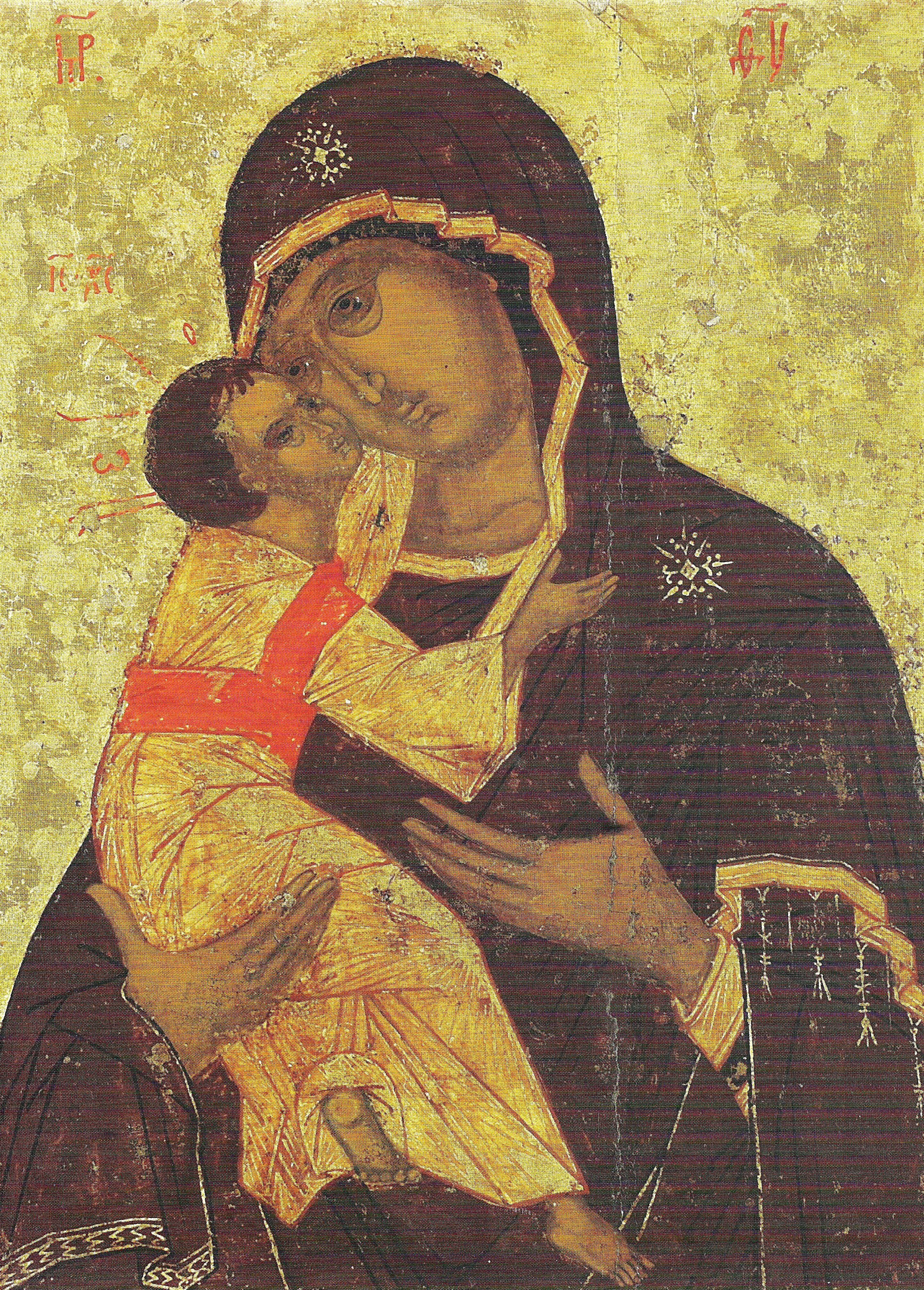 Theotokos Vladimirskaya icon, with feasts, Vologda, Vladimirskaya Church. Central part